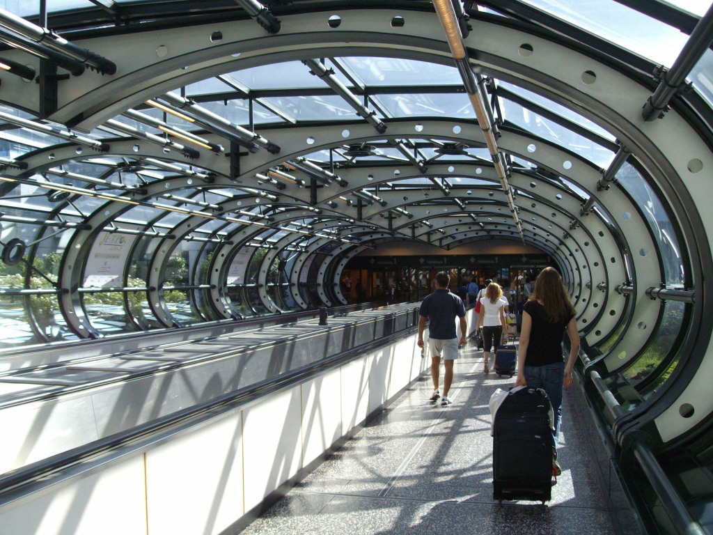 Connection between Malpensa rail station and the main Terminal